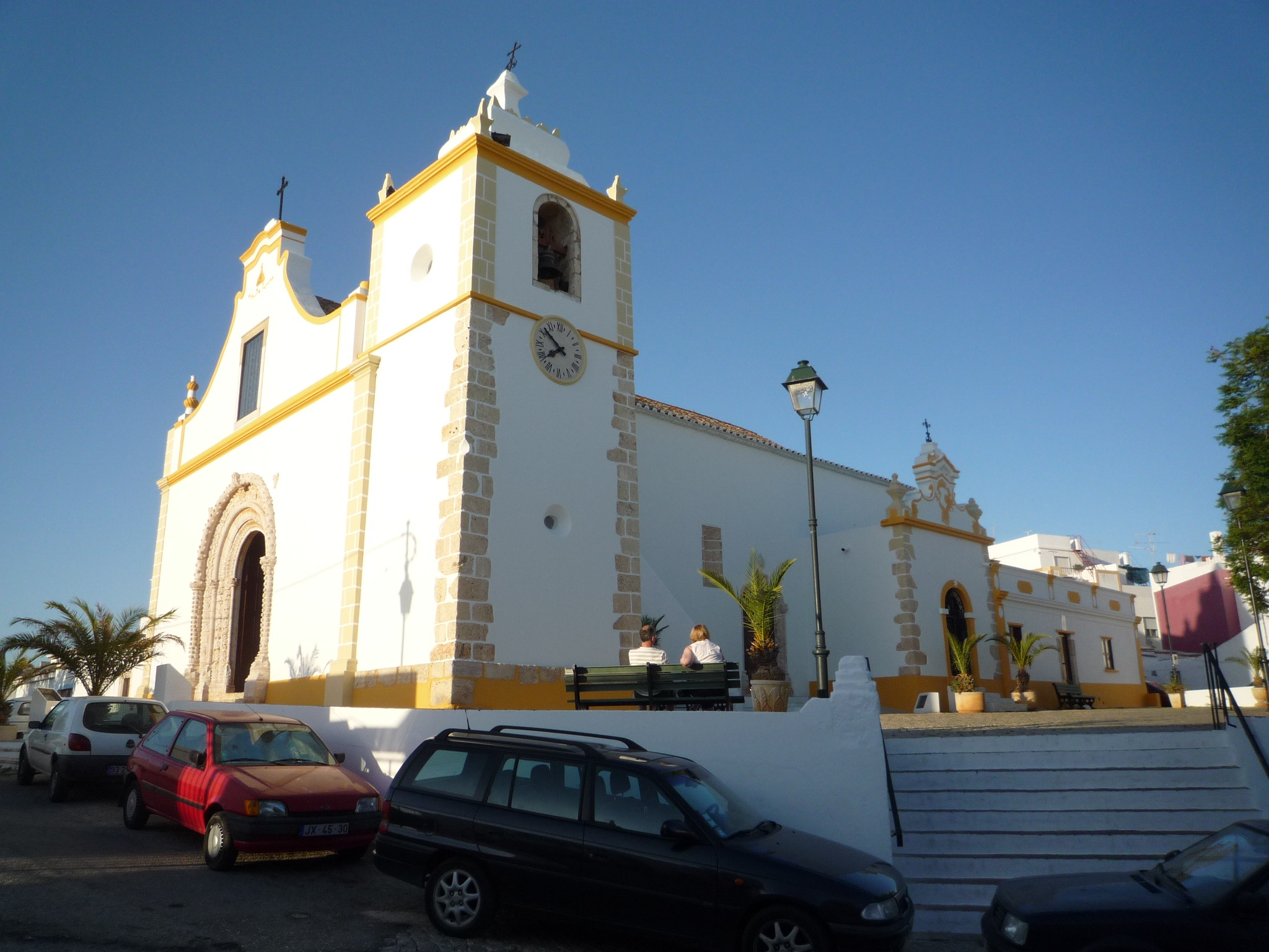 The mother church of the Holy Saviour in Rua da Igreja in Alvor, Algarve. Entry on diocesan website. More images.